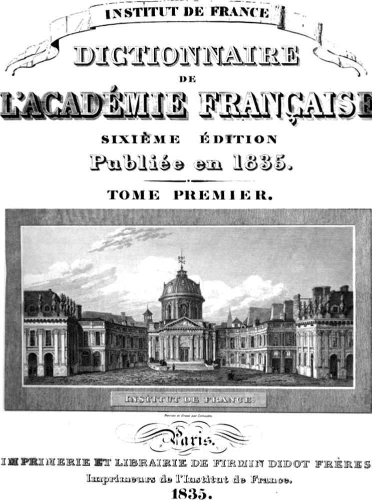 First page of the Sixth Edition of the Dictionnaire de l'Académie française